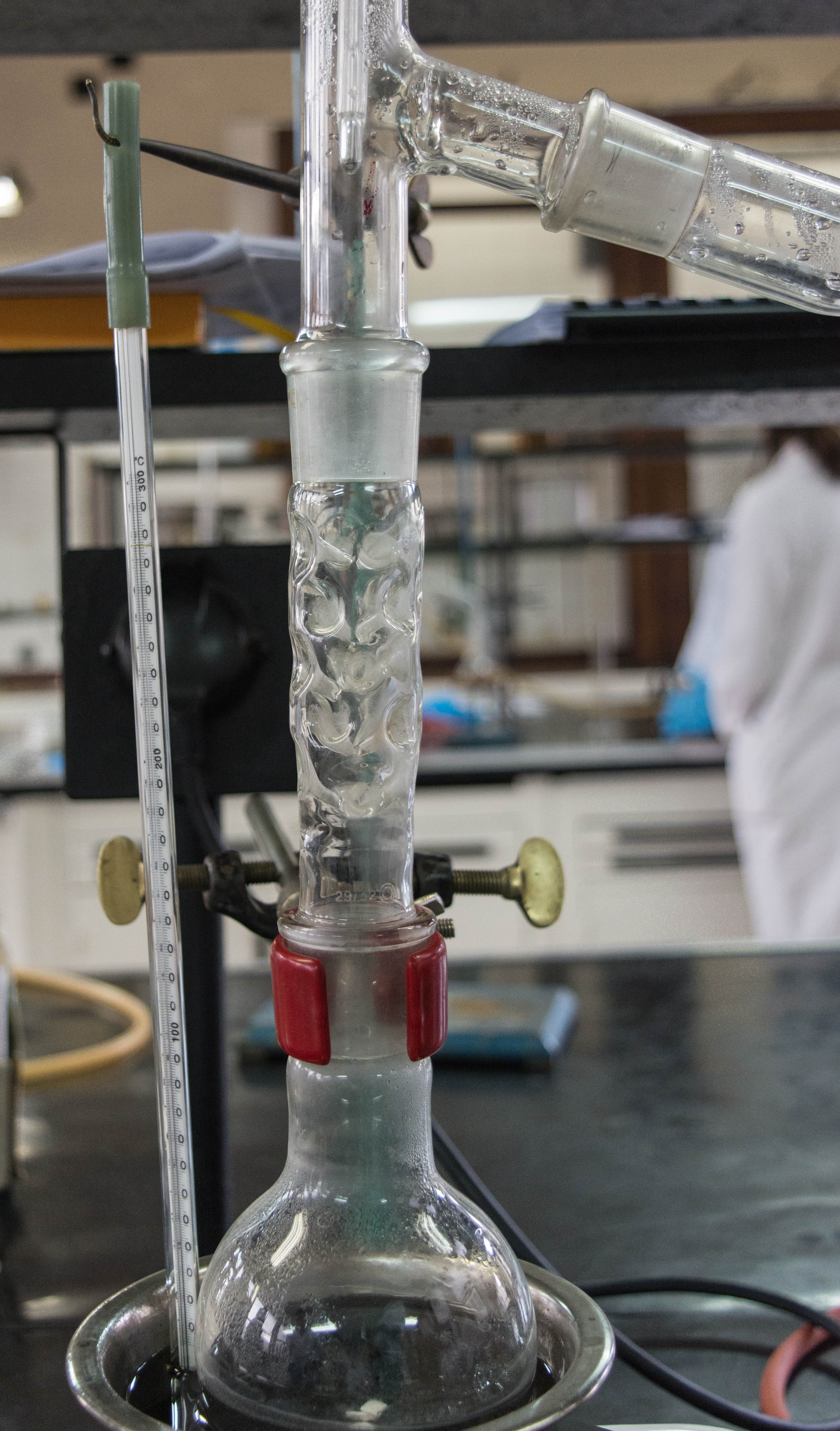 Vigreux column on a round-bottom flask, all connected to a condenser